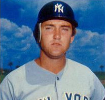 Professional baseball player Graig Nettles